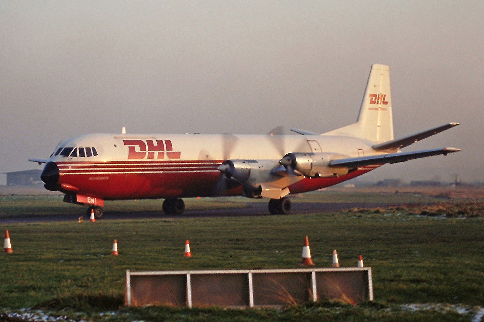 G-APEM Vickers Vanguard Hunting Cargo Coventry 11-1992